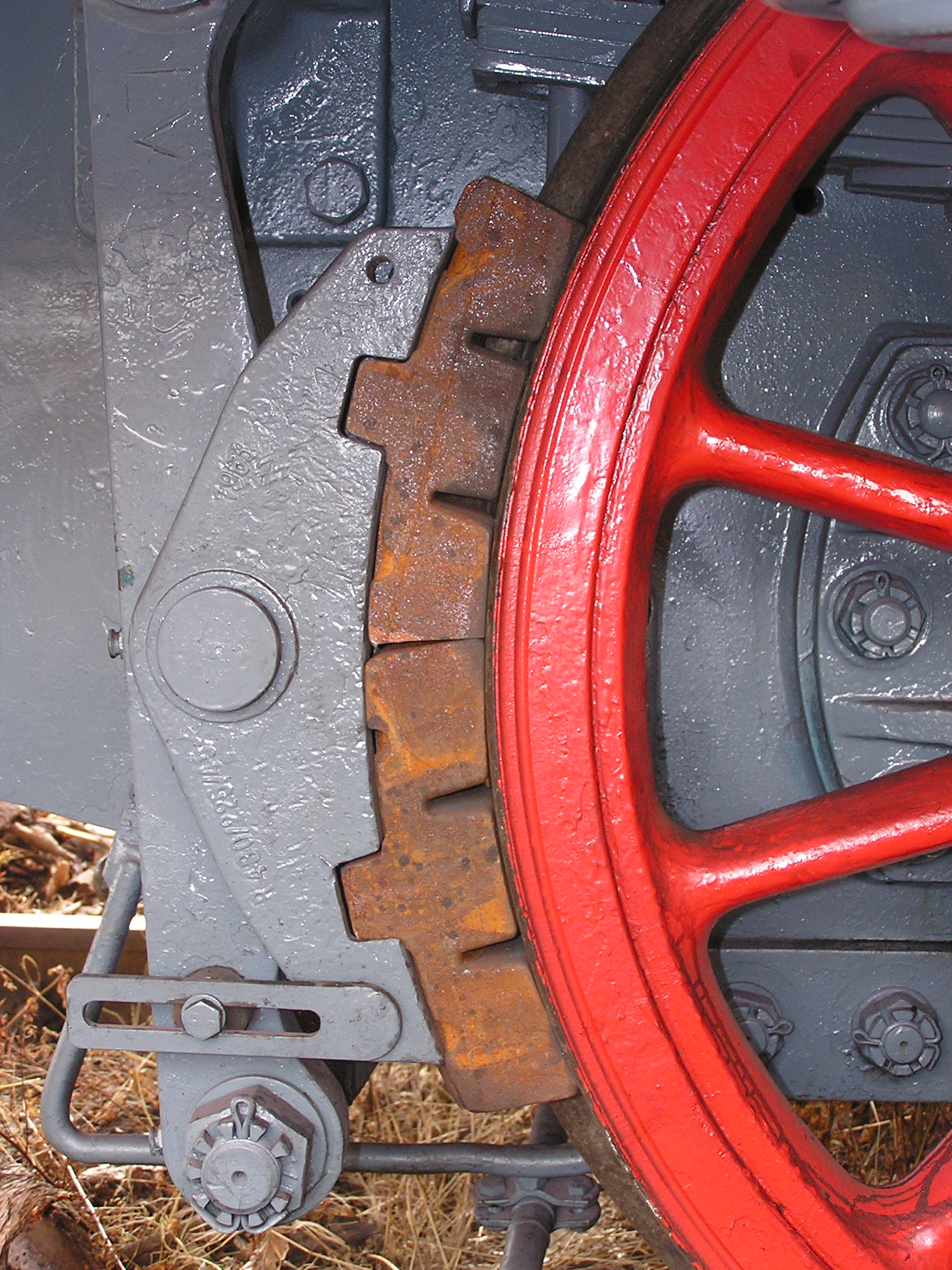 Brake of a MaK 450 C